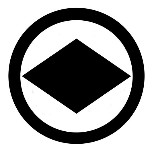 {Information Category:Kamon